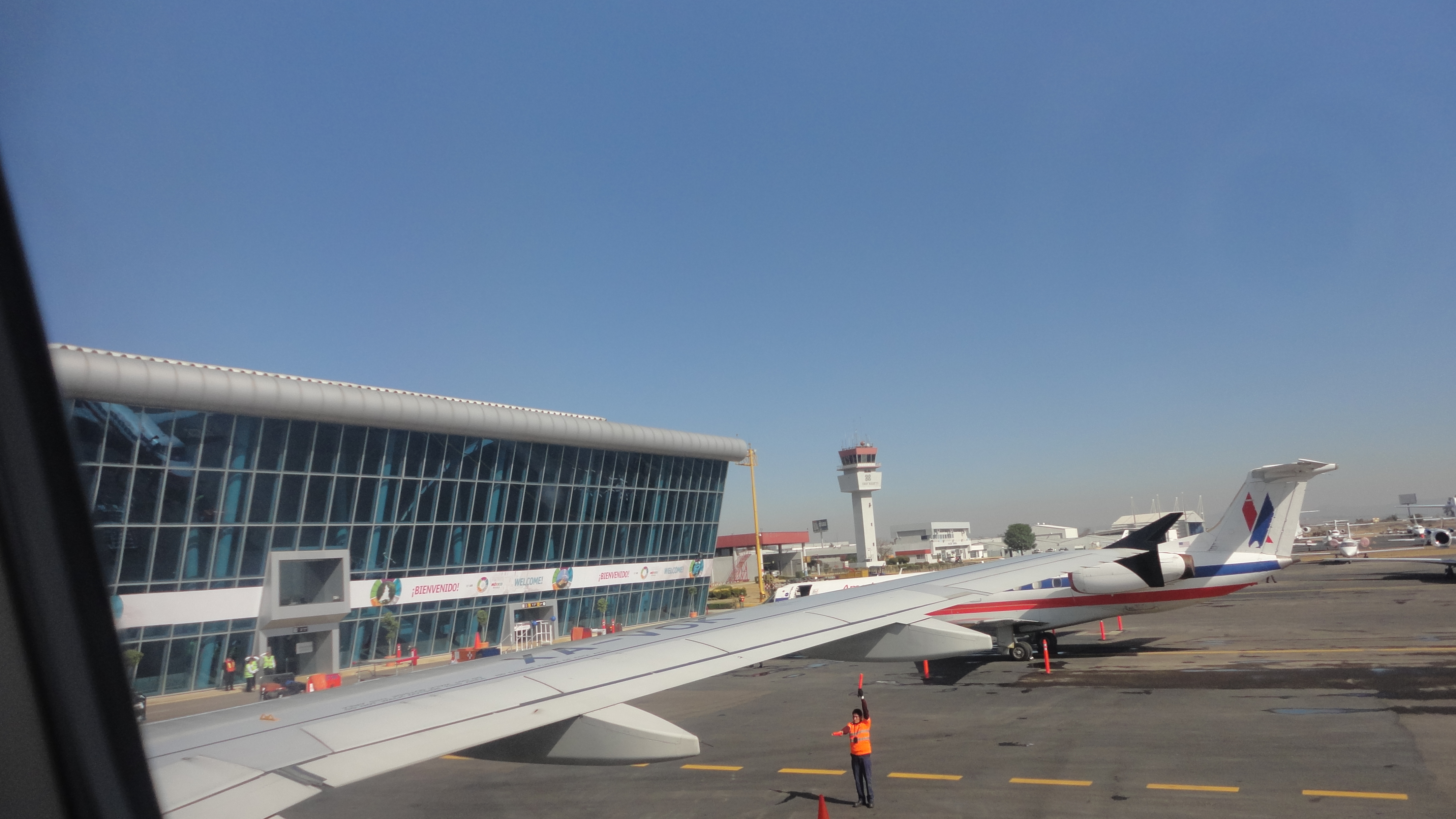 Photo of terminal at Hermanos Serdán International Airport located outside of Puebla sometimes called Puebla International Airport.